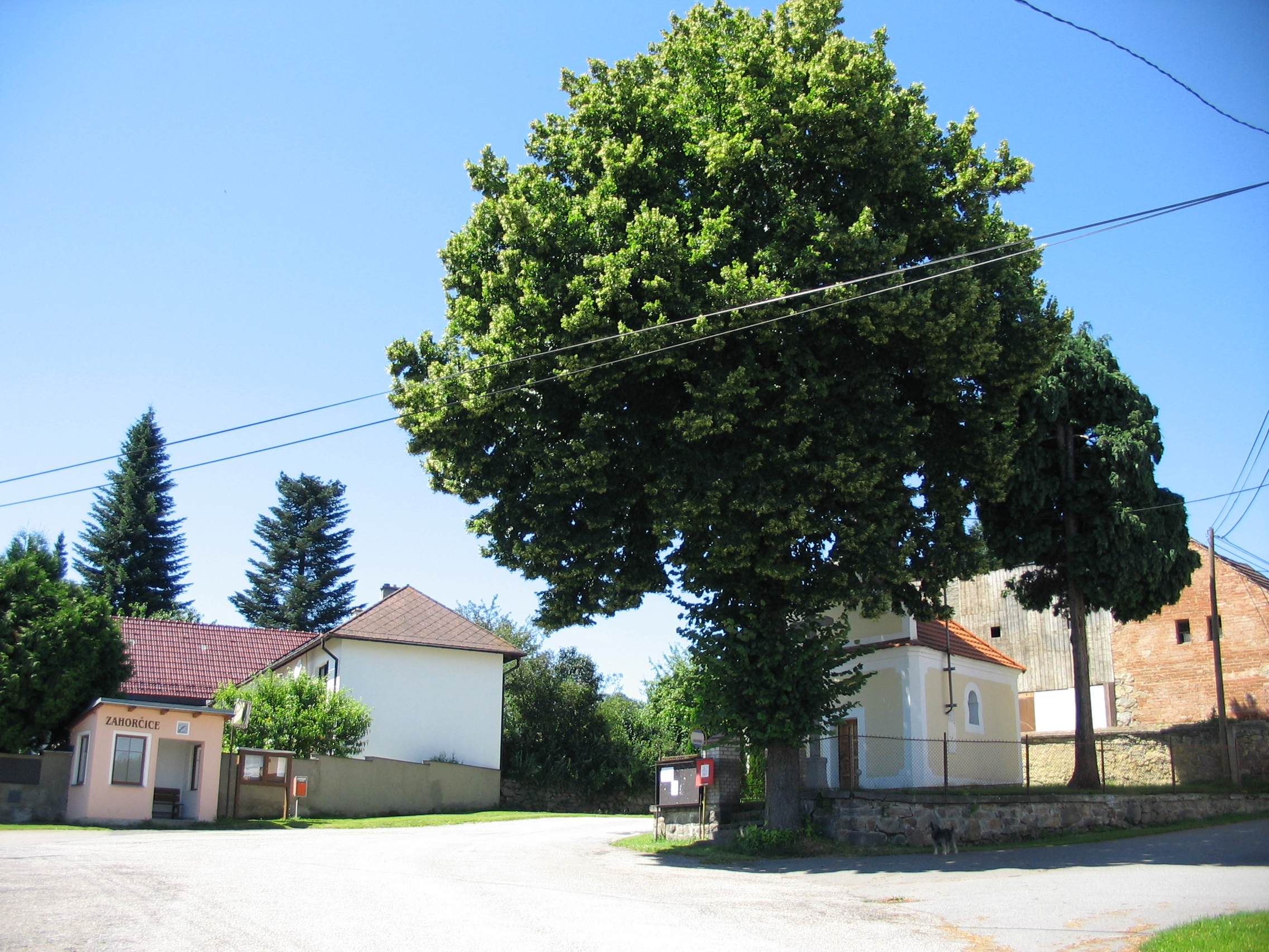 Village square and chapel in Zahorčice, Strakonice District, Czech Republic